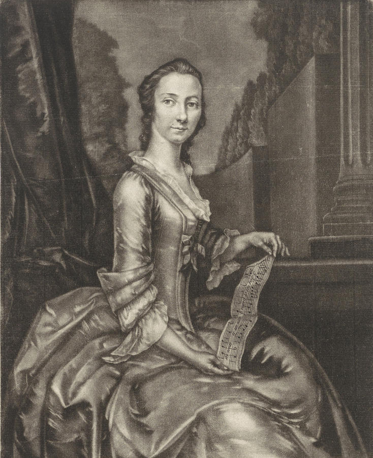 Female Singer Drawing - Portrait Of Anna Maria Falkner, Andreas Van Der Myn. 1750 maybe